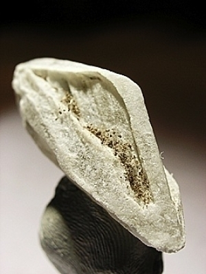 Gaylussite Locality: Searles Lake, San Bernardino County, California, USA (Locality at ) Size: 3.6 X 1.8 X 1.3 cm. An extremely rare crystal of this interesting carbonate mineral with the formula: Na2Ca(CO3)2•5H2O. Ex. Carlton Davis Collection.